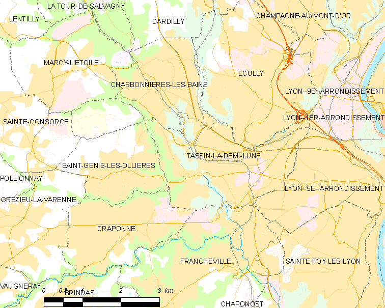 Map of French municipality